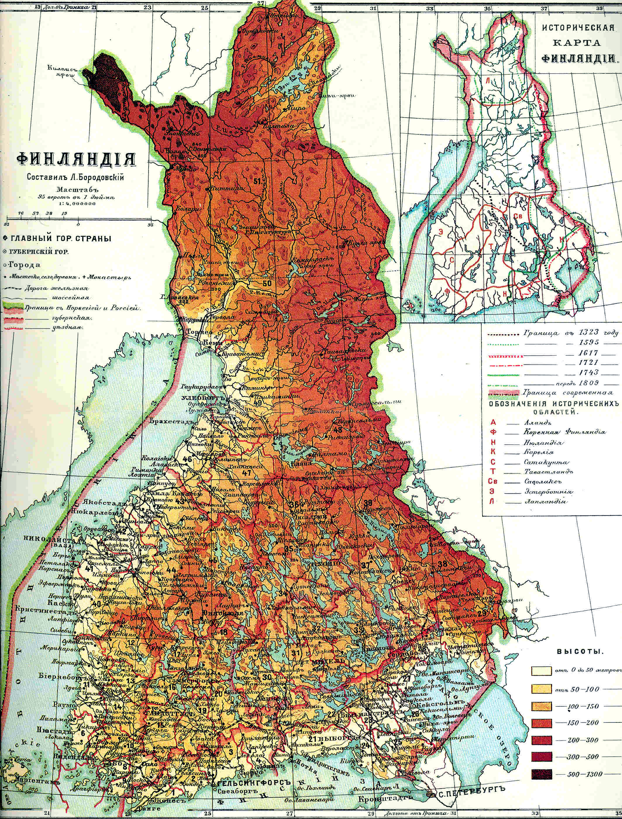 Illustration from Brockhaus and Efron Encyclopedic Dictionary (1890—1907)